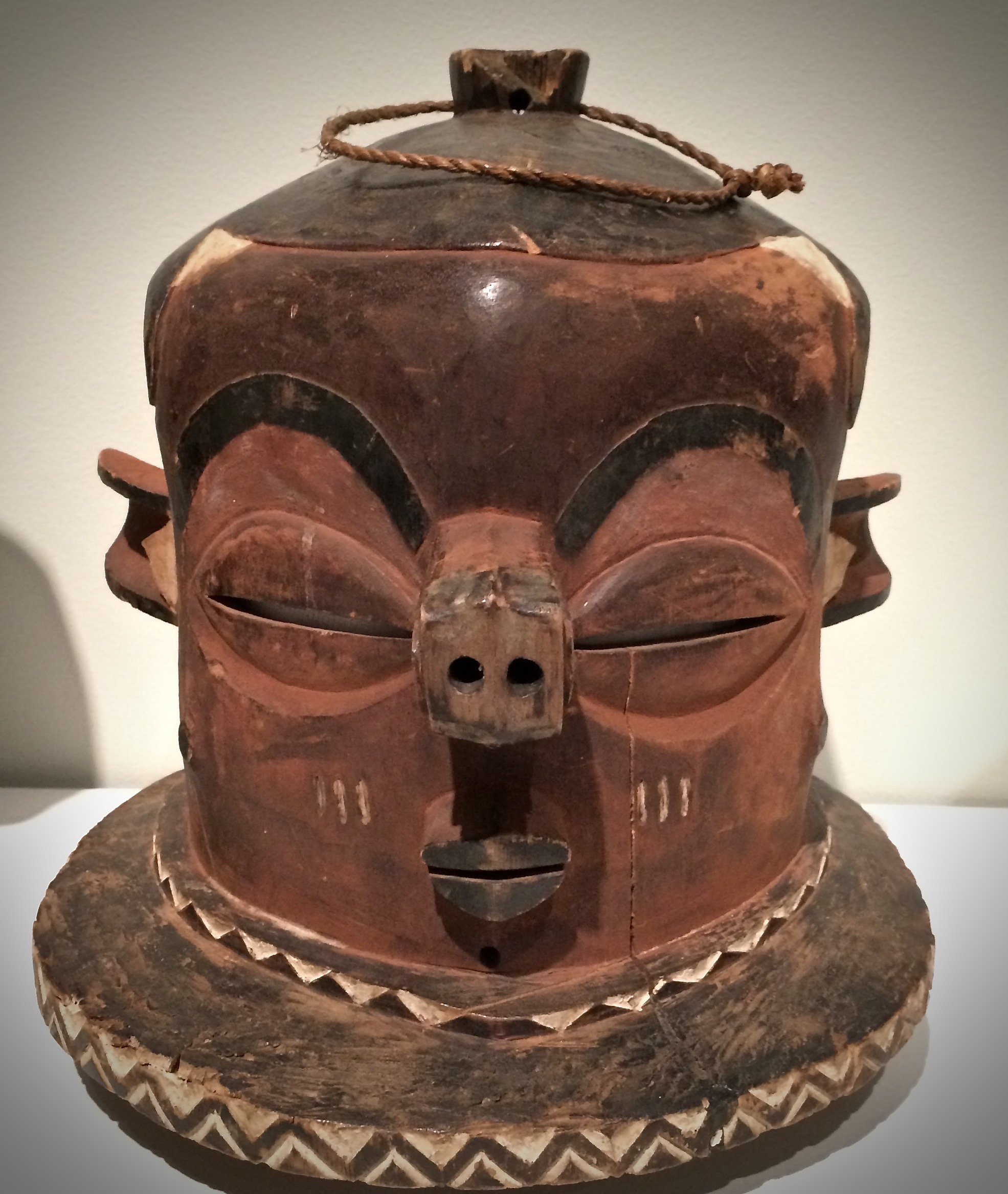 20th century, carved & painted wood. Said to represent a particularly powerful chief, the mask was believed to have healing powers. Cantor Arts Center, Stanford.